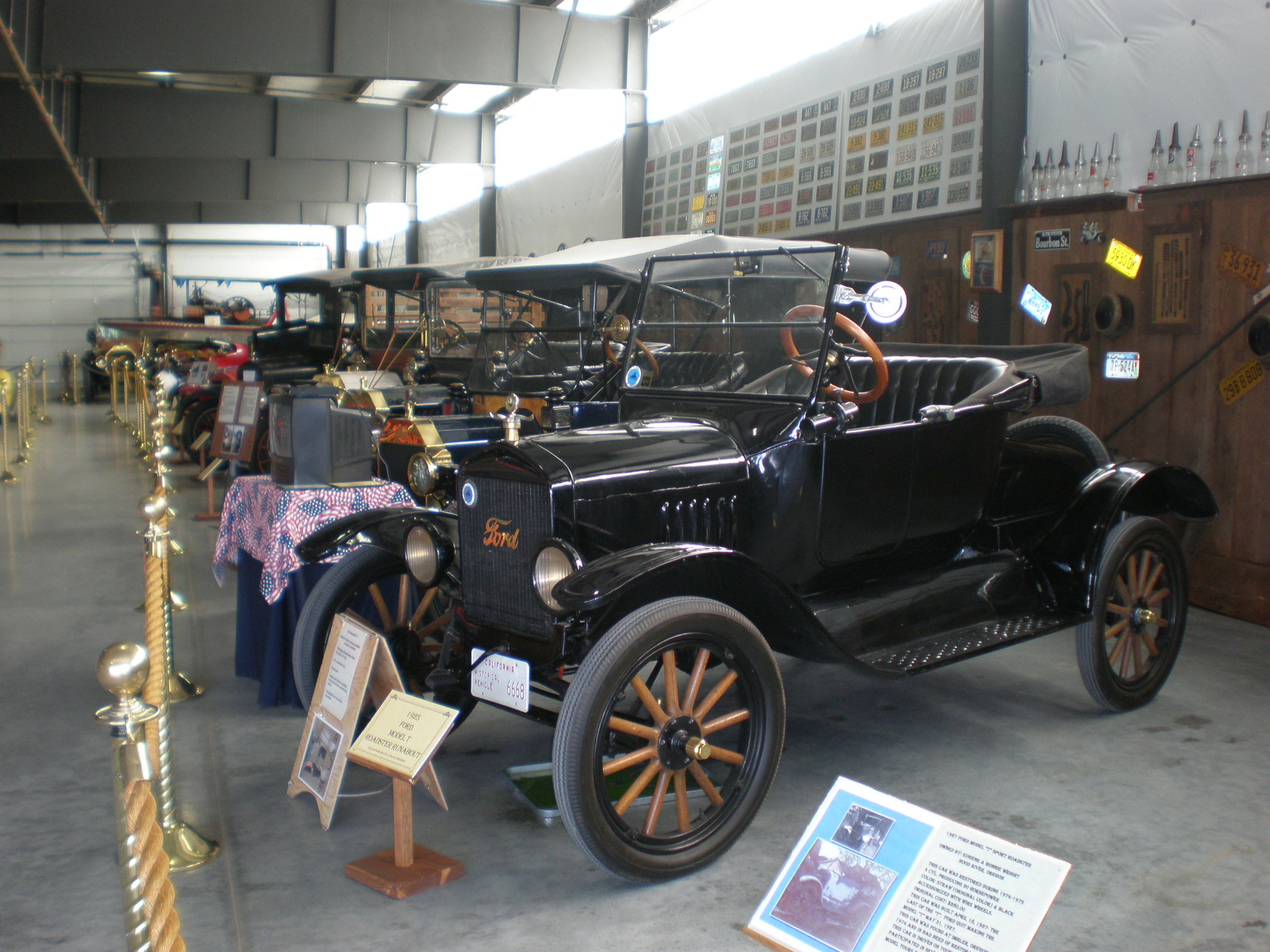 Some of them many antique autos found at Western Antique Aeroplane and Automobile Museum (WAAAM) in Hood River, OR